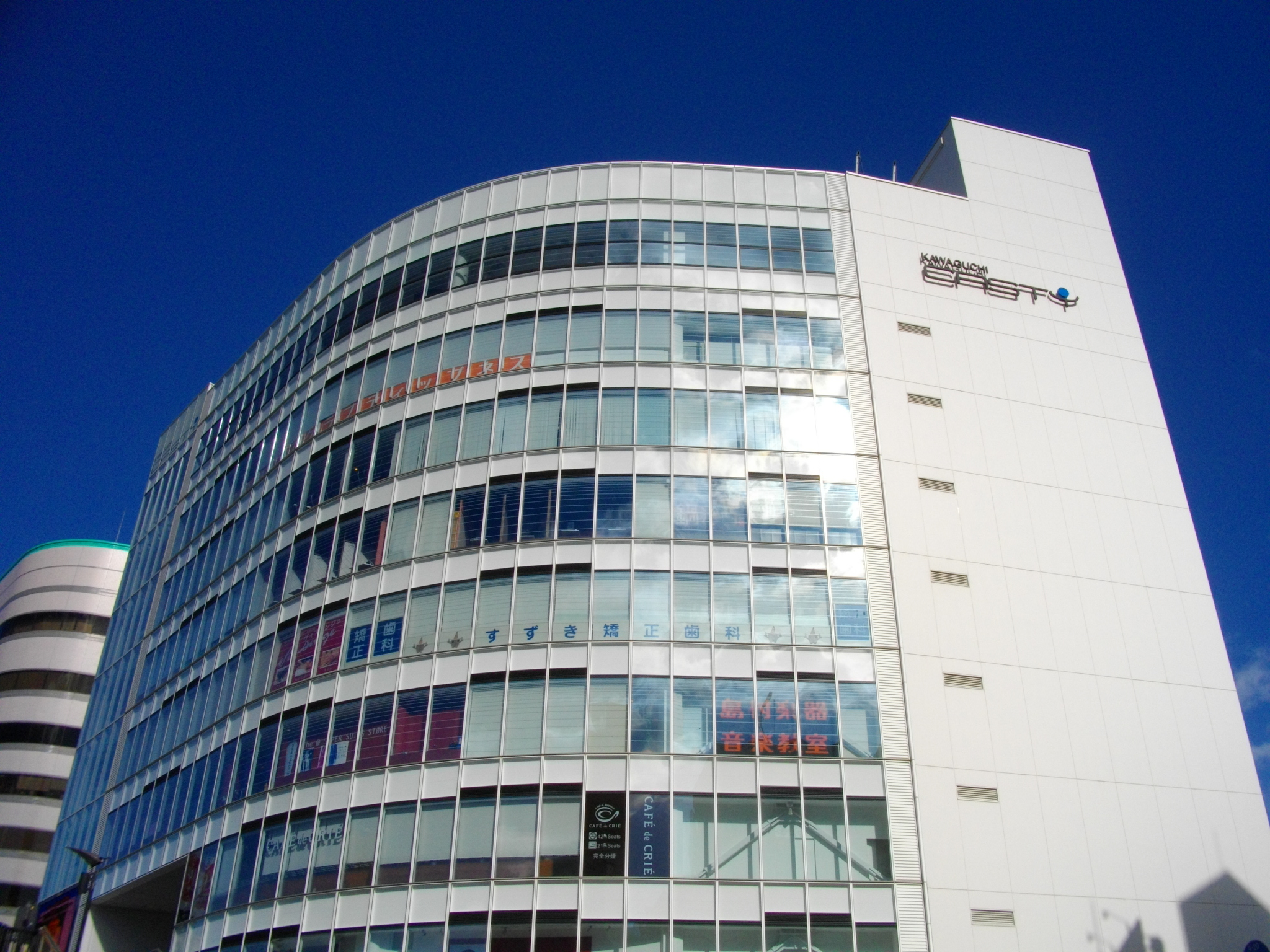 Kawaguchi Casty Building